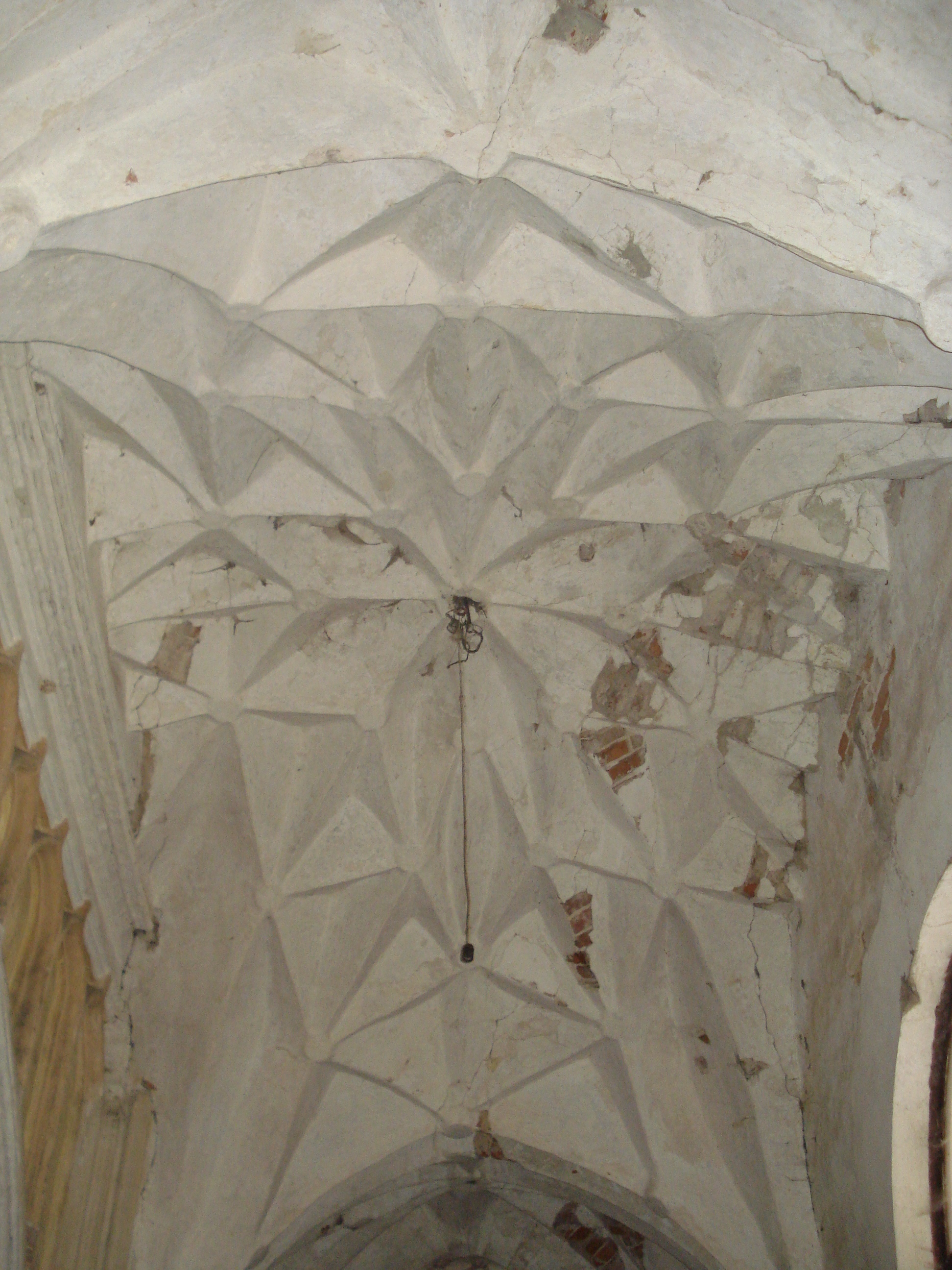 The Church of Saint Francis and Saint Bernardino in Vilnius (Šv. Pranciškaus ir Bernardino, arba Bernardinų, bažnyčia; Kościół Śww. Franciszka i Bernardyna; Maironio 10). Entrance. Fragment of the ceiling